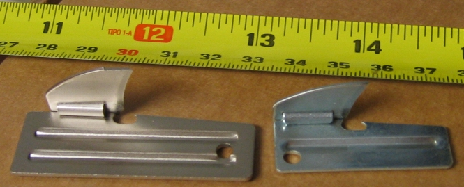 U.S. P-38 and P-51 can openers with ruler for scale. P-51 on left.